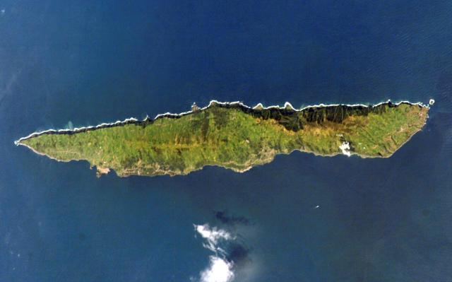 NASA Space Shuttle image of São Jorge, Azores